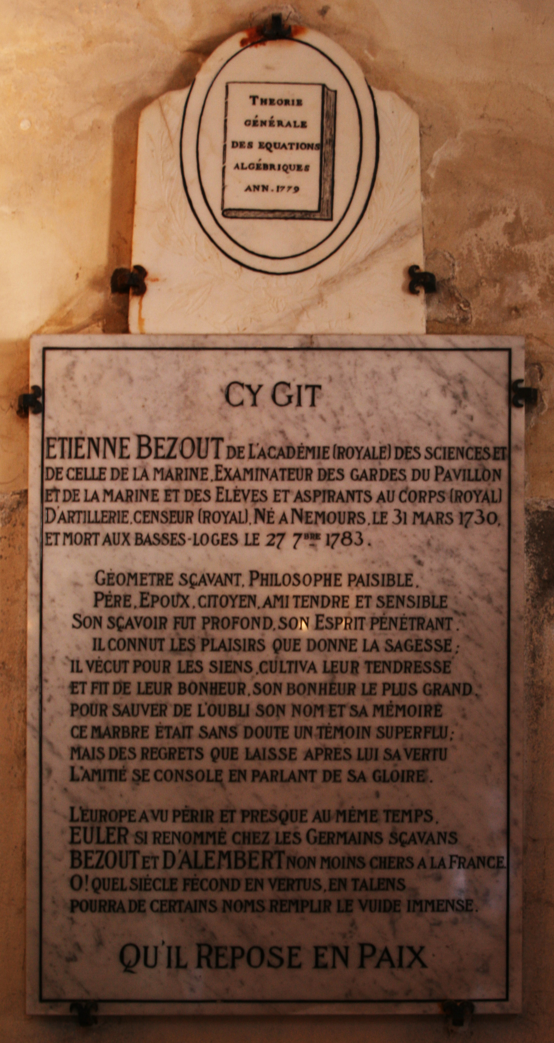 Plaque tombale de Etienne Bezout dans l'église Saint-Pierre à Avon Texte de la pierre tombale : CY GIT ETIENNE BEZOUT DE L'ACADEMIE (ROYALE) DES SCIENCES ET DE CELLE DE LA MARINE, EXAMINATEUR DES GARDES DU PAVILLON ET DE LA MARINE ET DES ELEVES ET ASPIRANTS AU COPRS (ROYAL) D'ARTILLERIE, CENSEUR (ROYAL), NE A NEMOURS, LE 31 MARS 1730, ET MORT AUX BASSES-LOGES LE 27 7bre 1783. GEOMETRE SCAVANT, PHILOSOPHE PAISIBLE, PERE, EPOUX, CITOYEN, AMI TENDRE ET SENSIBLE SON SCAVOIR FUT PROFOND, SON ESPRIT PENETRANT. IL CONNUT LES PLAISIRS QUE DONNE LA SAGESSE; IL VECUT POUR LES SIENS, CULTIVA LEUR TENDRESSE ET FIT DE LEUR BONHEUR, SON BONHEUR LE PLUS GRAND. POUR SAUVER DE L'OUBLI SON NOM ET SA MEMOIRE CE MARBRE ETAIT SANS DOUTE UN TEMOIN SUPERFLU; MAIS DES REGRETS QUE LAISSE APRES LUI SA VERTU L'AMITIE SE CONSOLE EN PARLANT DE SA GLOIRE. L'EUROPE A VU PERIR ET PRESQUE AU MEME TEMPS, EULER SI RENOMME CHEZ LES GERMAINS SCAVANS BEZOUT ET D'ALEMBERT NON MOINS CHERS A LA FRANCE O! QUEL SIECLE FECOND EN VERTUS, EN TALENS POURRA DE CERTAINS NOMS REMPLIR LE VUIDE IMMENSE. QU'IL REPOSE EN PAIX